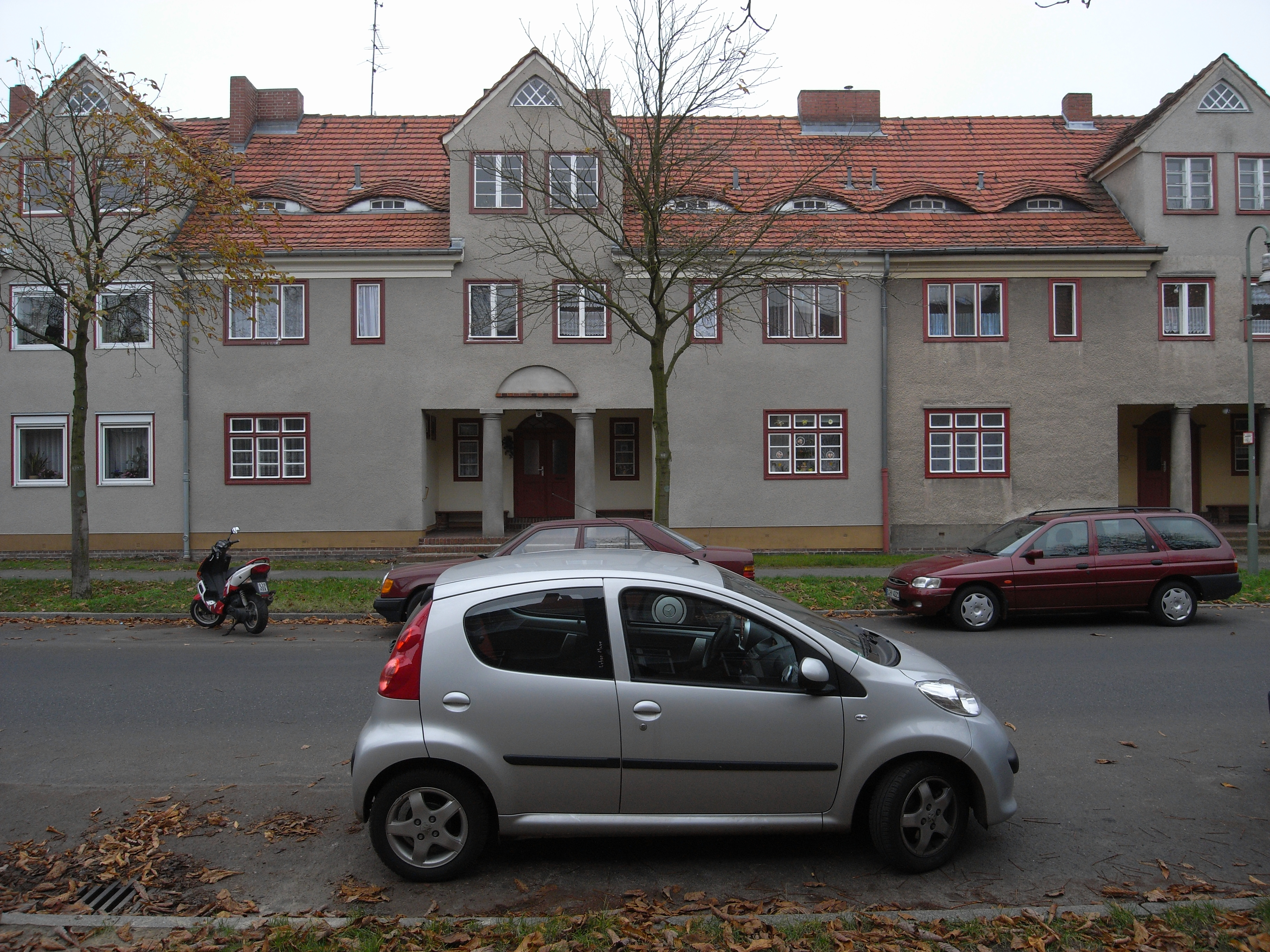 House group Am Heideberg in the Garden City Staaken (1914-17) near Berlin of the architect Paul Schmitthenner